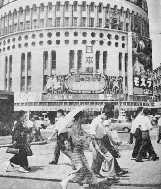 A picture of Tokyo's Nichigeki Nippon Theater in 1964.